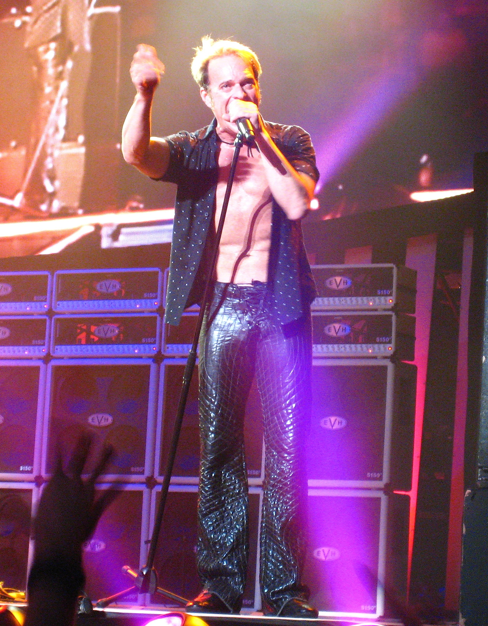 Taken at The Van Halen Tour featuring David Lee Roth (lead vocals), Eddie Van Halen (guitars), Wolfgang Van Halen (bass) and Alex Van Halen (drums). The concert was held at Bell Center, Montreal on 10th November, 2007.